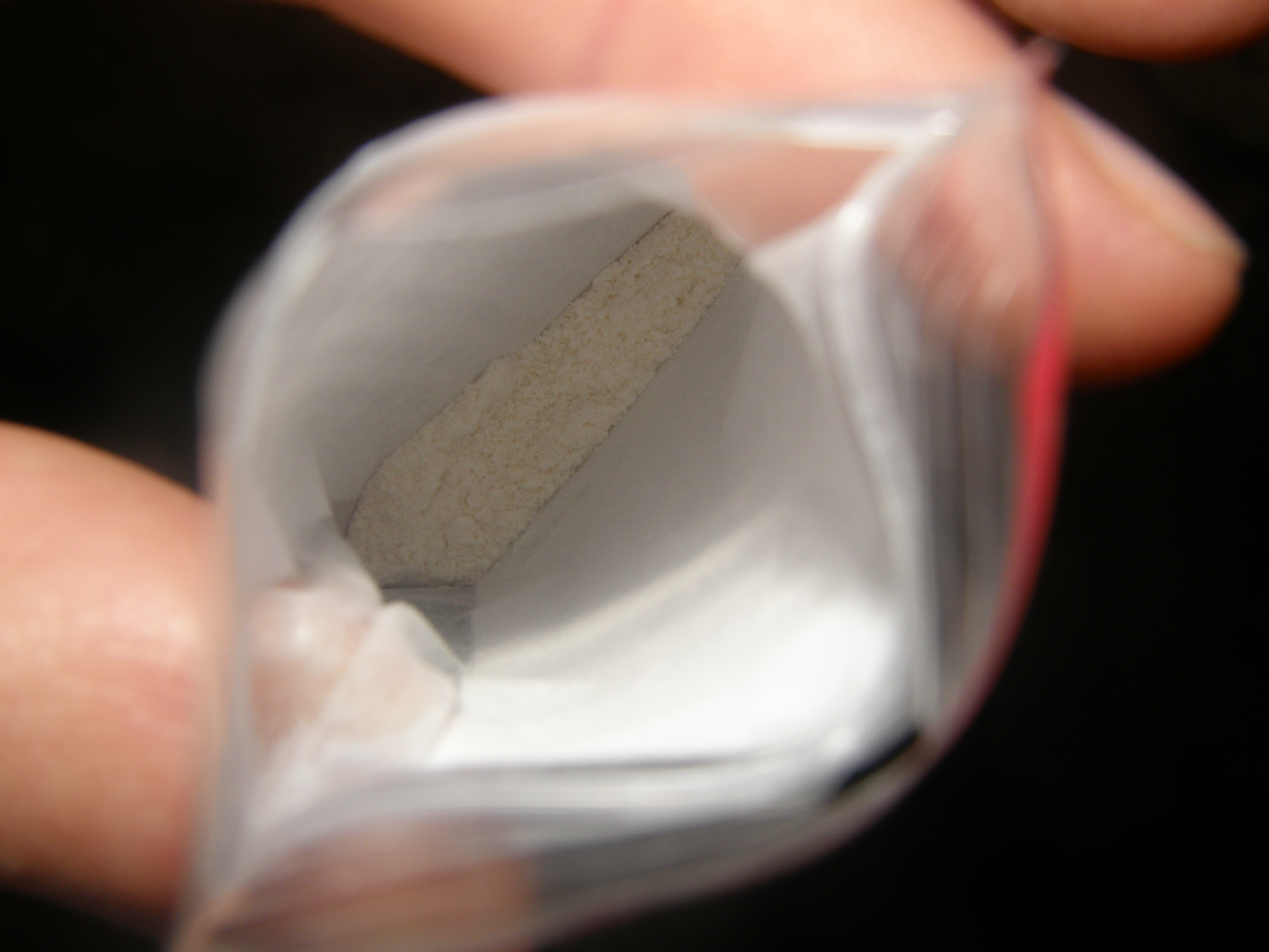 1 gram of methoxetamine